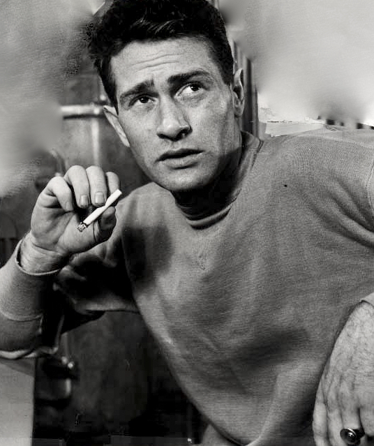 Stage photo of Darren McGavin as Happy Lohman in a production of Death of a Salesman